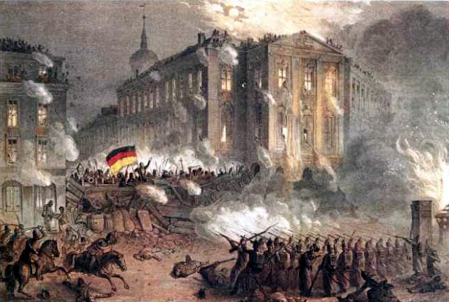 Streetfights at Alexanderplatz in Berlin in 1848 during the German Revolution.